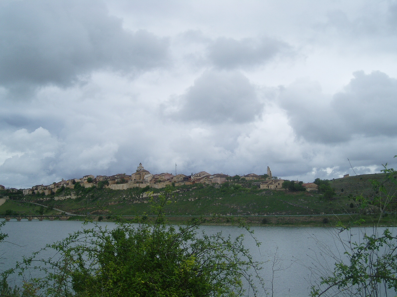 Maderuelo and the Marsh of Linares.